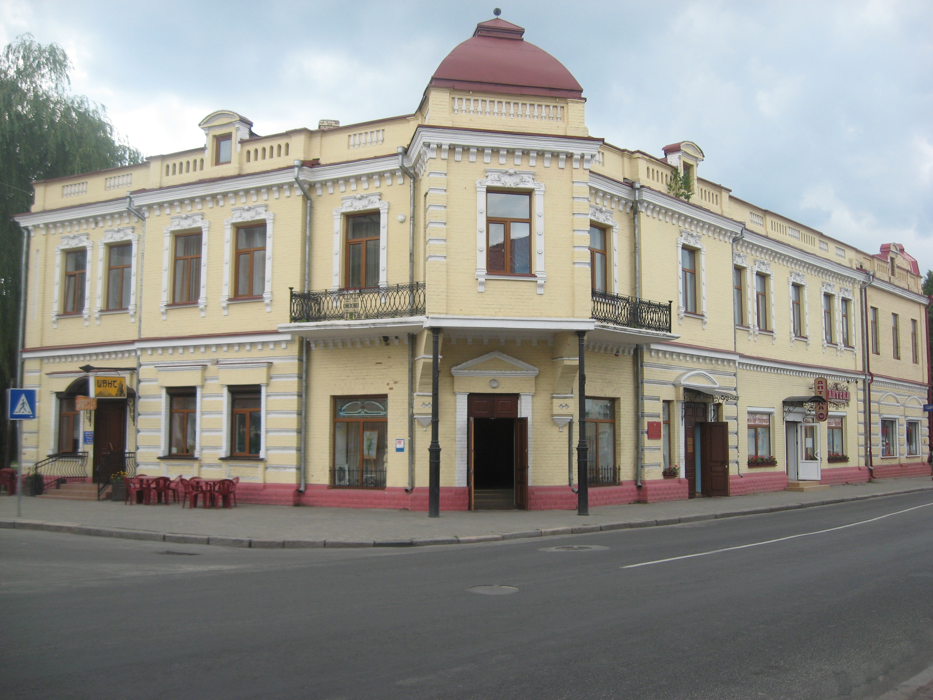 Pharmacy in Kovel